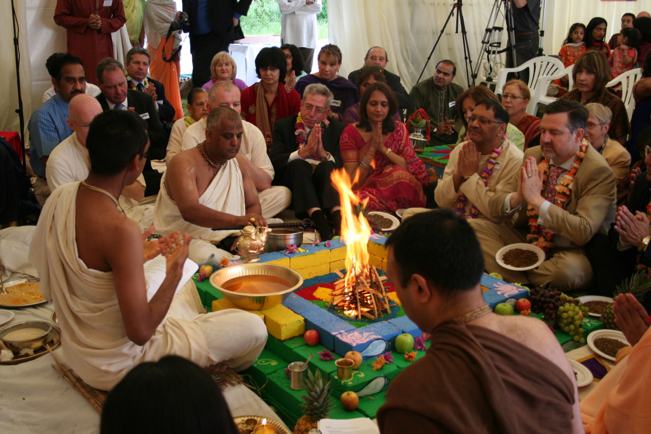 Ghee is being cupped to be sacrificed into fire. Yajna is a fire deity ritual, common in puja (pooja, Hindu prayers), weddings and other occasions. Hinduism India